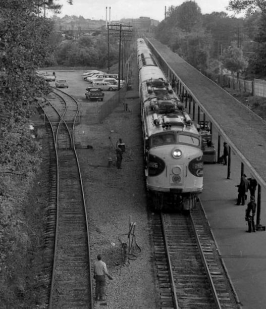 Peach Tree Station in Atlanta, Georgia, ca. 1974.